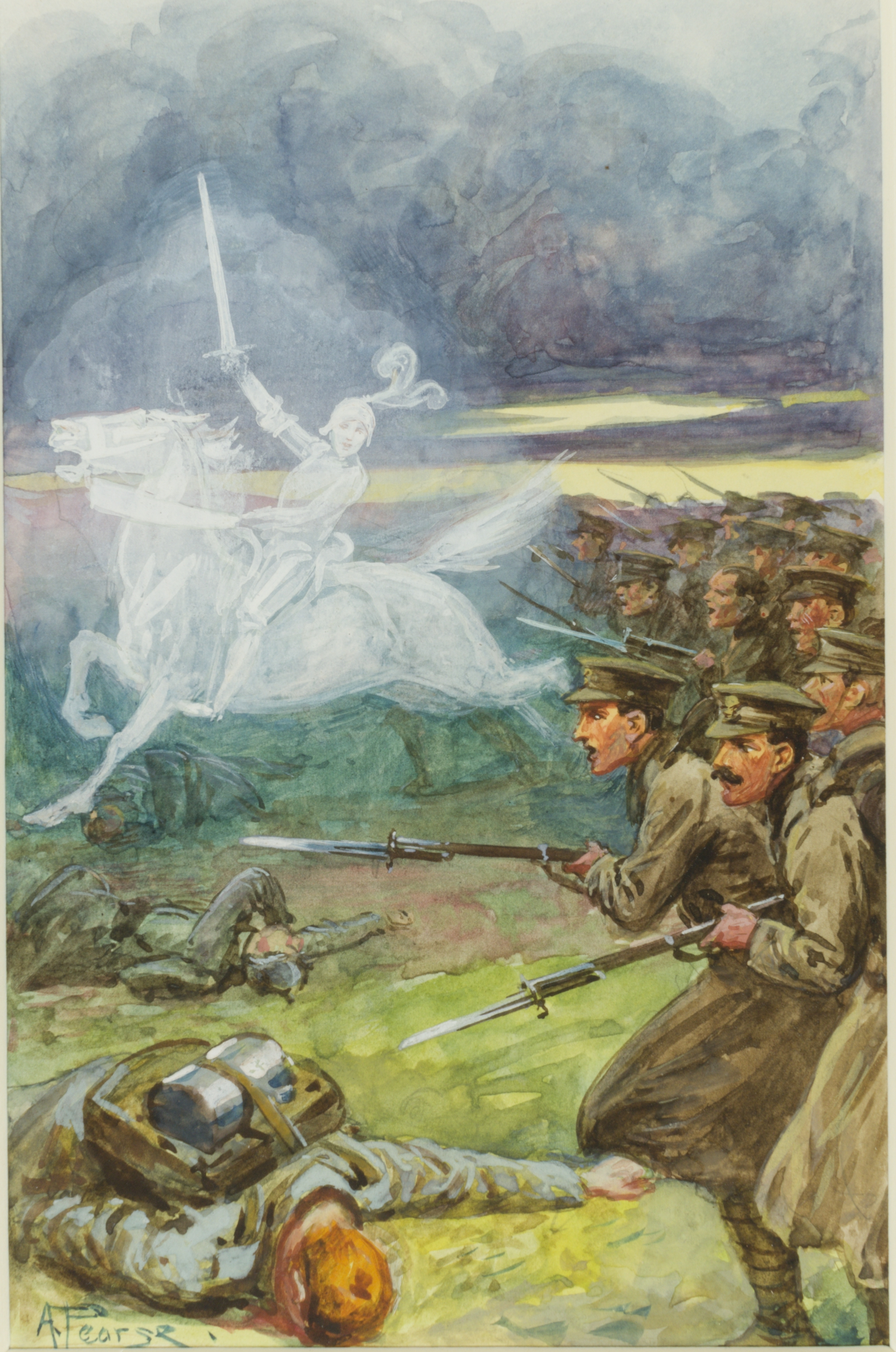 Pencil and watercolour illustration of a ghostly Saint George, mounted on a white horse, leading a charge by British soldiers in World War One.